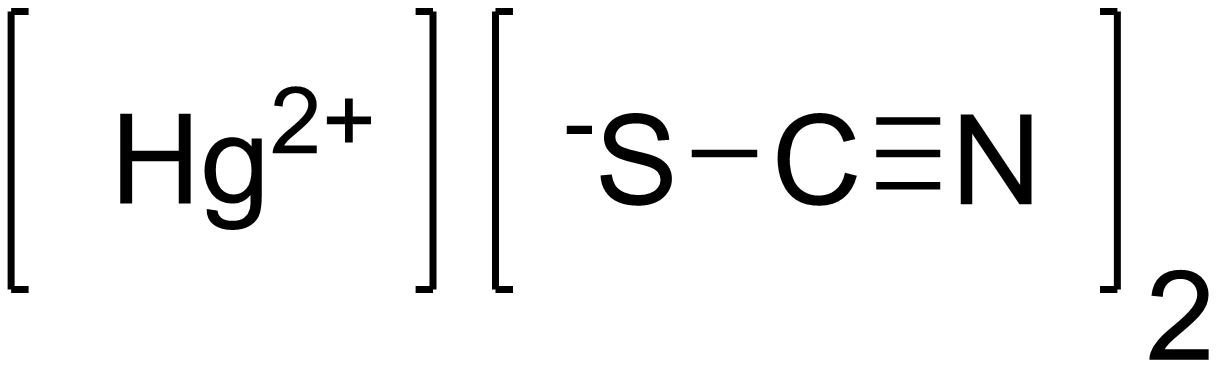 Chemical structure of mercury thiocyanate